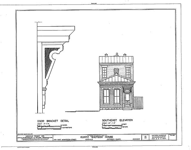 Sketch of east elevation of a shotgun house at 1401 East Washington Street, Louisville, Jefferson County, KY. Also detail of a door bracket. Image courtesy the federal HABS—Historic American Buildings Survey of Kentucky project.